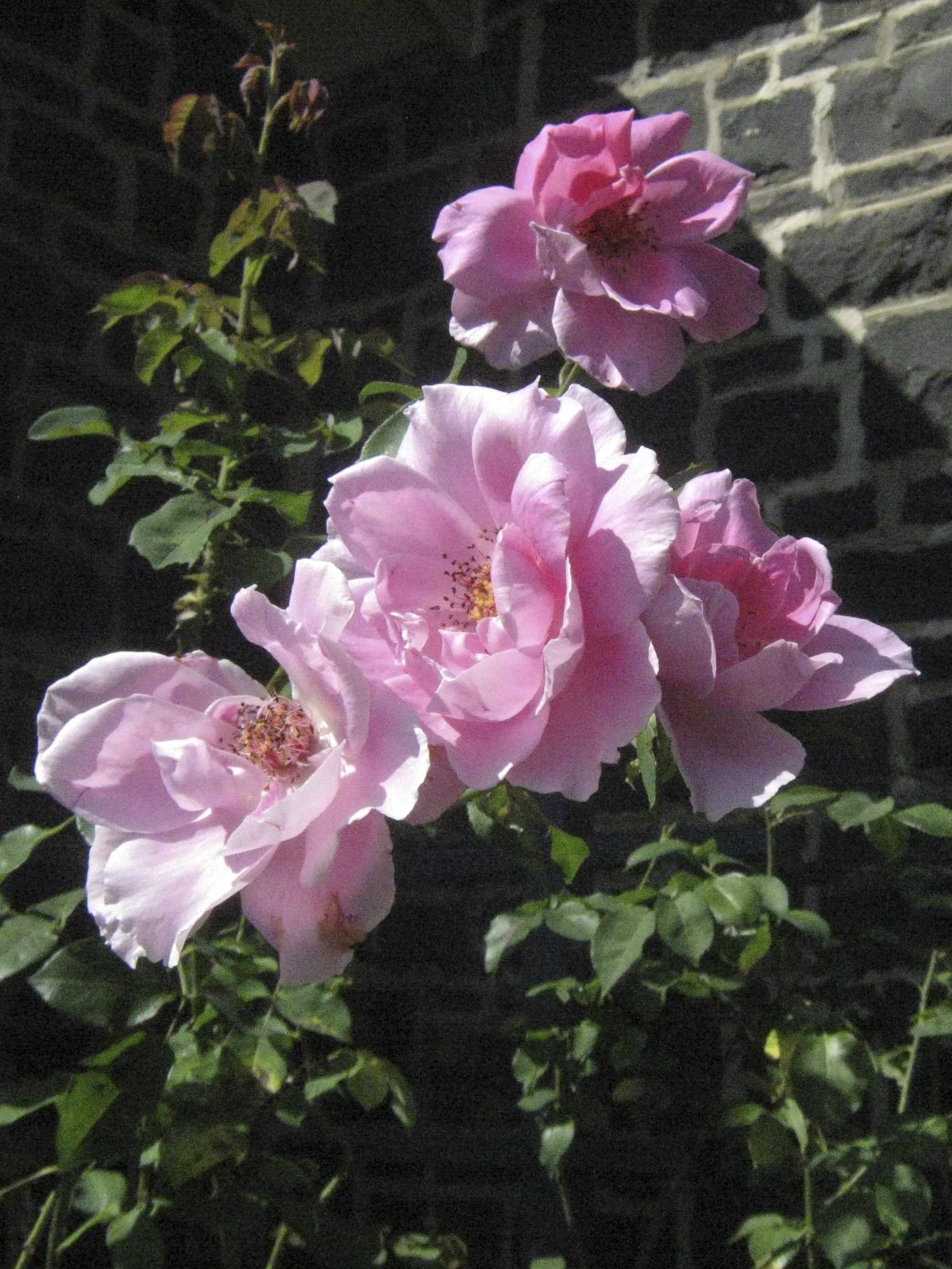 Rose 'Mrs Fred Danks', Hybrid Tea by Alister Clark 1951; Photographed at the Alister Clark Memorial Rose Garden, Bulla, Victoria